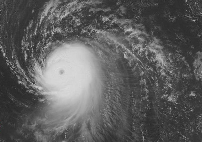 Hurricane Ike at category 4 strength in mid-Atlantic. Ohtotgraphed in visible light by GOES-East Stom Floater 4 at 1445Z on 4th Sept.